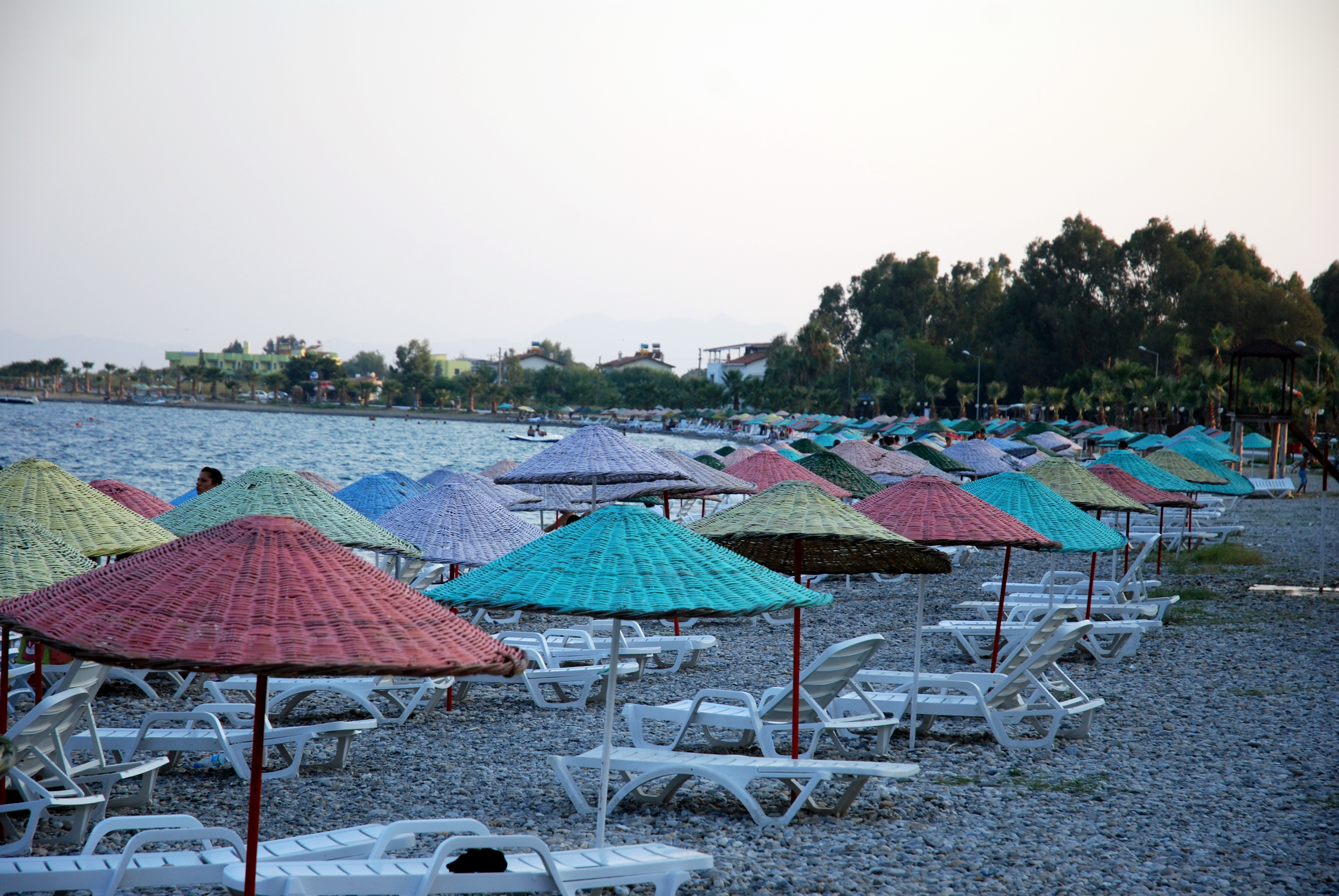 Ören Beach at Ören, Milas.